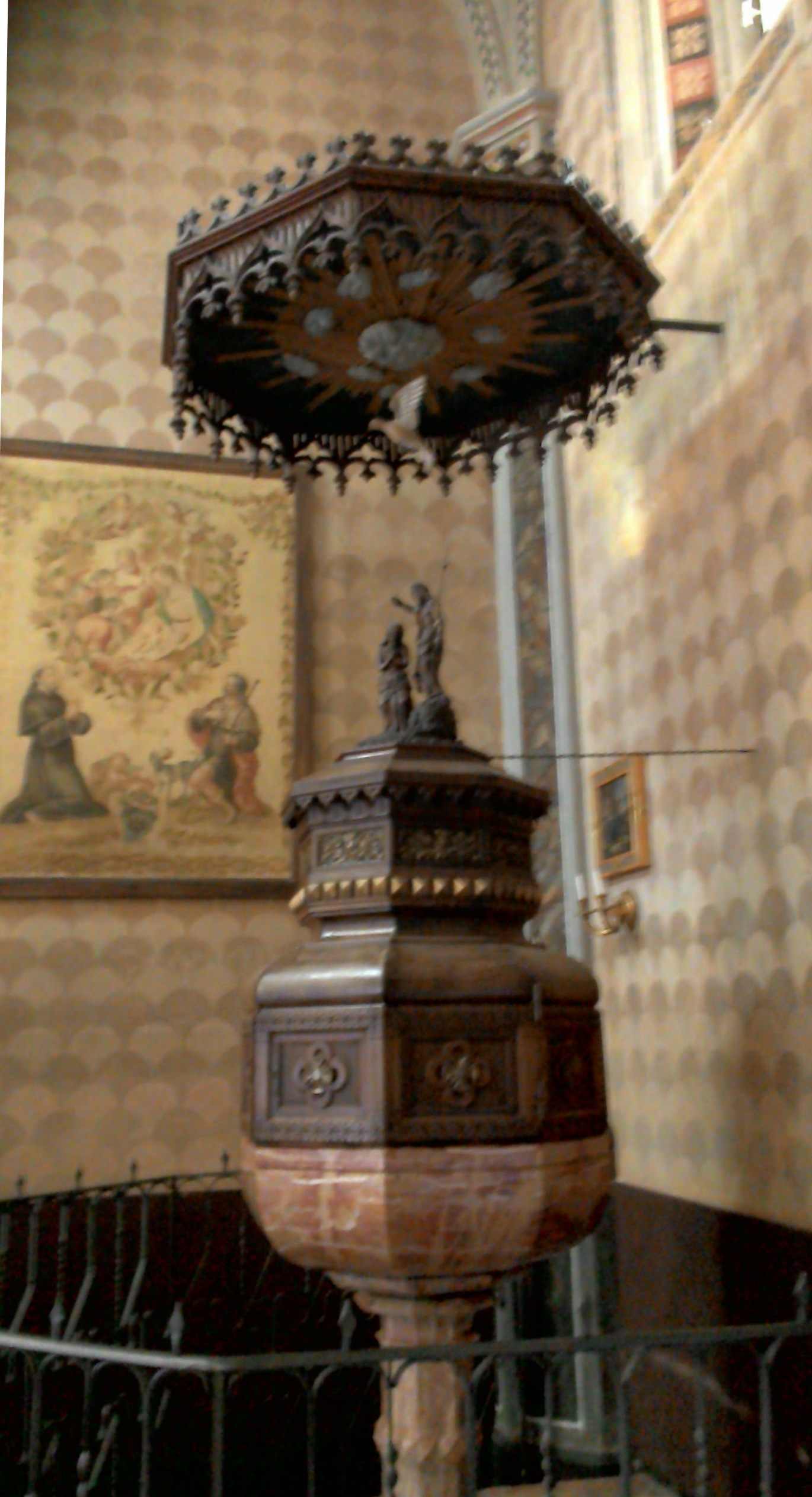 Battistero in marmo e legno, opera di Mario Bruno & figli (1884) e Giacomo Miceli (1891)